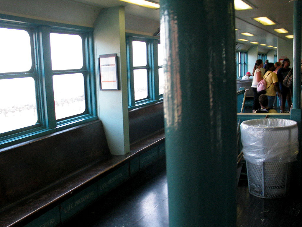 The interior of John F. Kennedy class boat, of the Staten Island Ferry